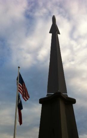 This monument commemorates the former NIKE missile base in Duncanville, Texas. It is located just outside of the Duncanville Community Center building, located on former Air Force property.